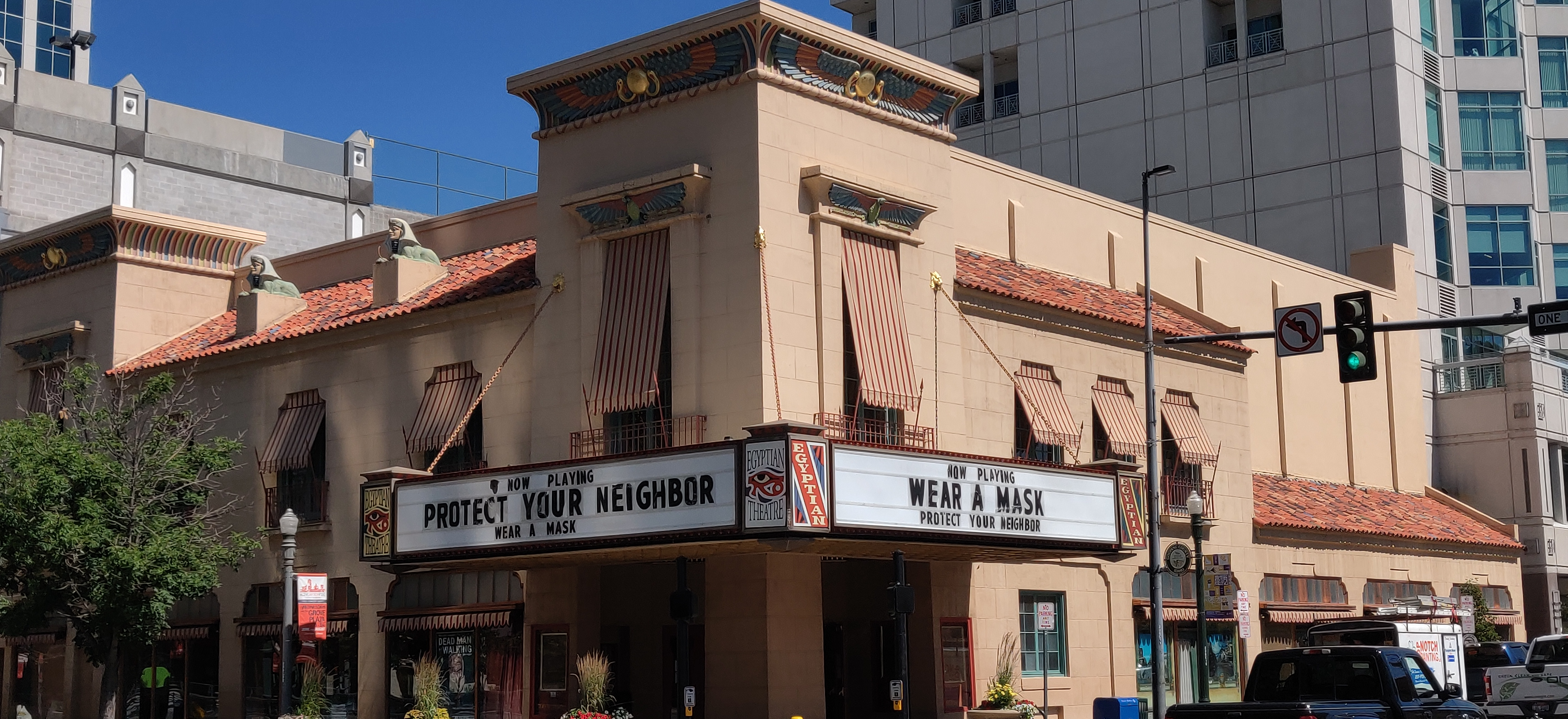 COVID-19 whimsy.